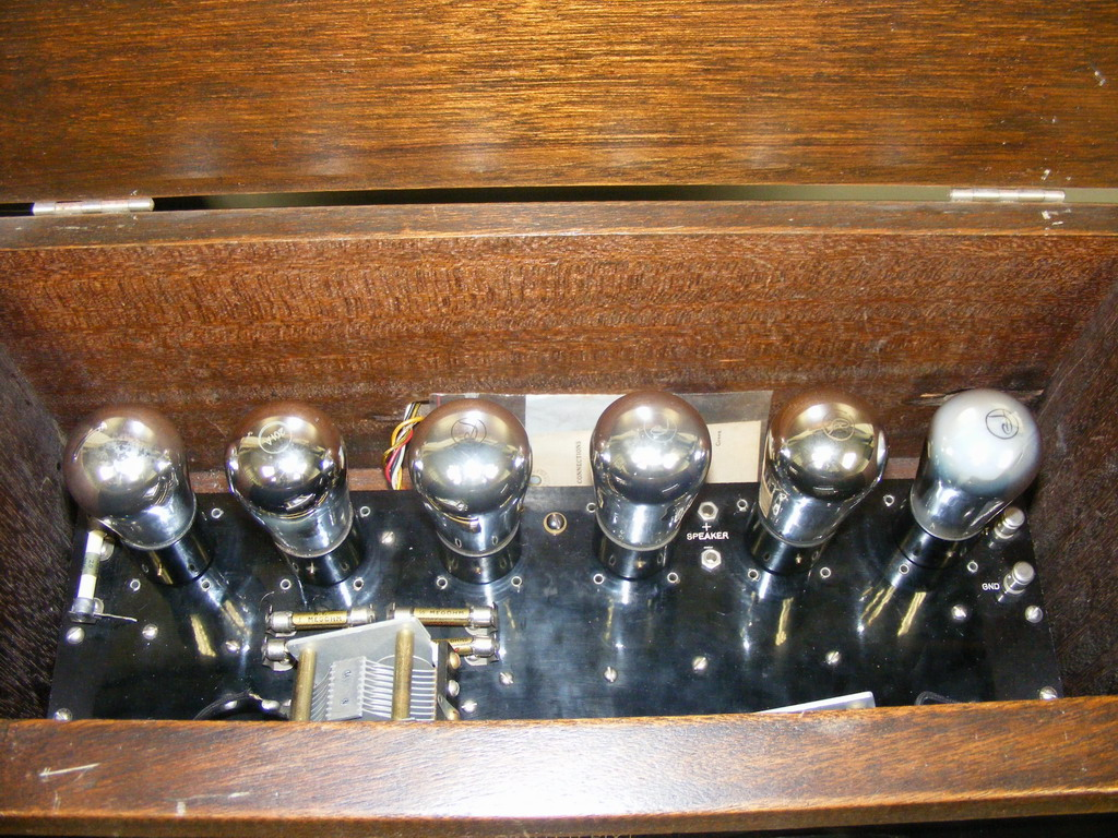 Six tube antique Tuned Radio Frequency receiver from the early 1920s, showing tube layout. Before the superheterodyne receiver, radios did most of the amplification of the signal at the radio frequency. The low gain of early vacuum tubes at radio frequencies required many tubes to achieve adequate volume.